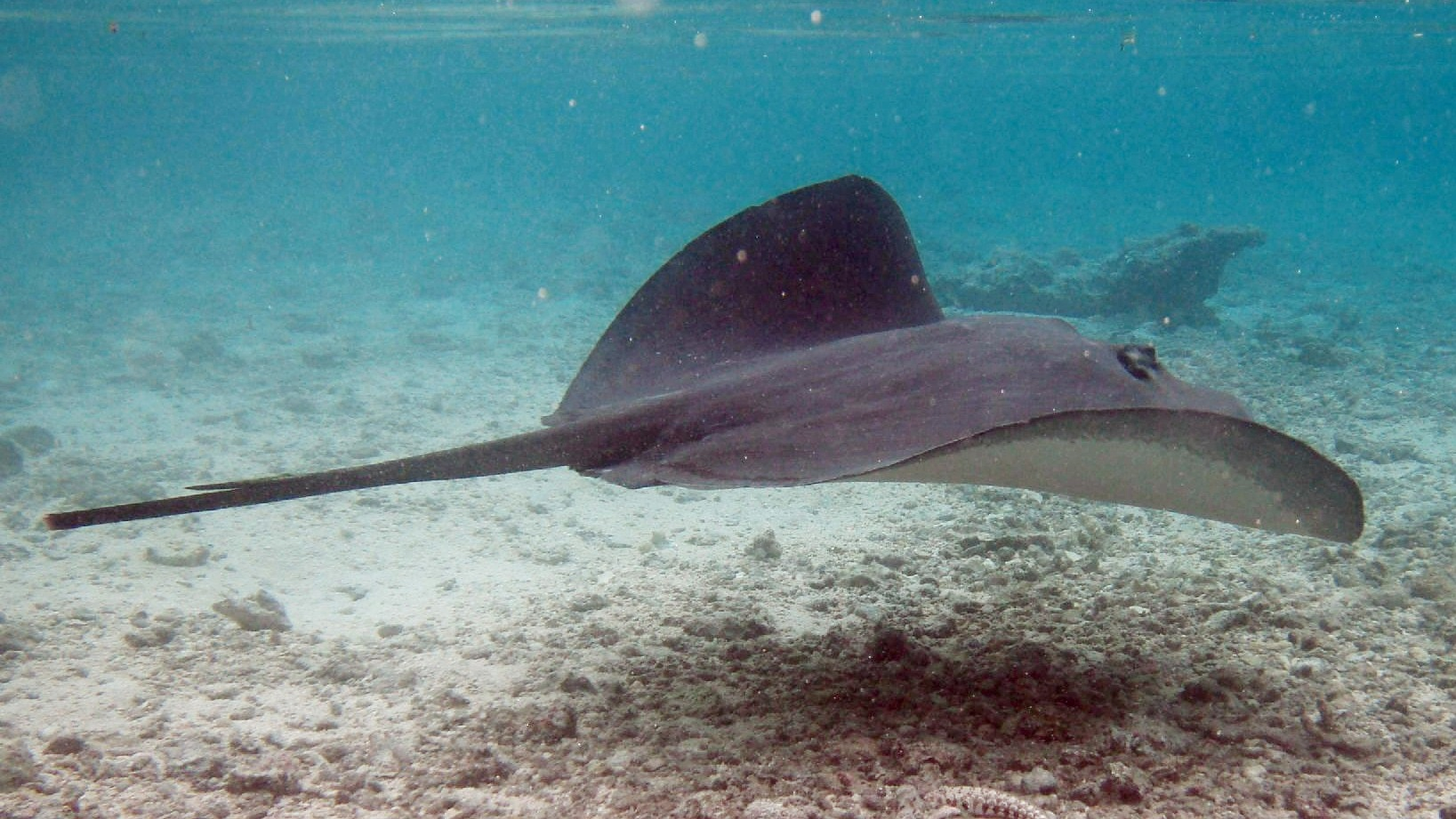 Pink whipray (Himantura fai) off Tahiti.